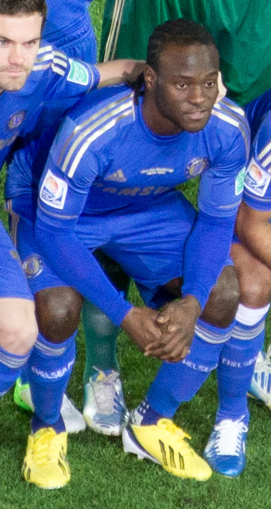 Victor Moses. Image cropped from original at flickr.